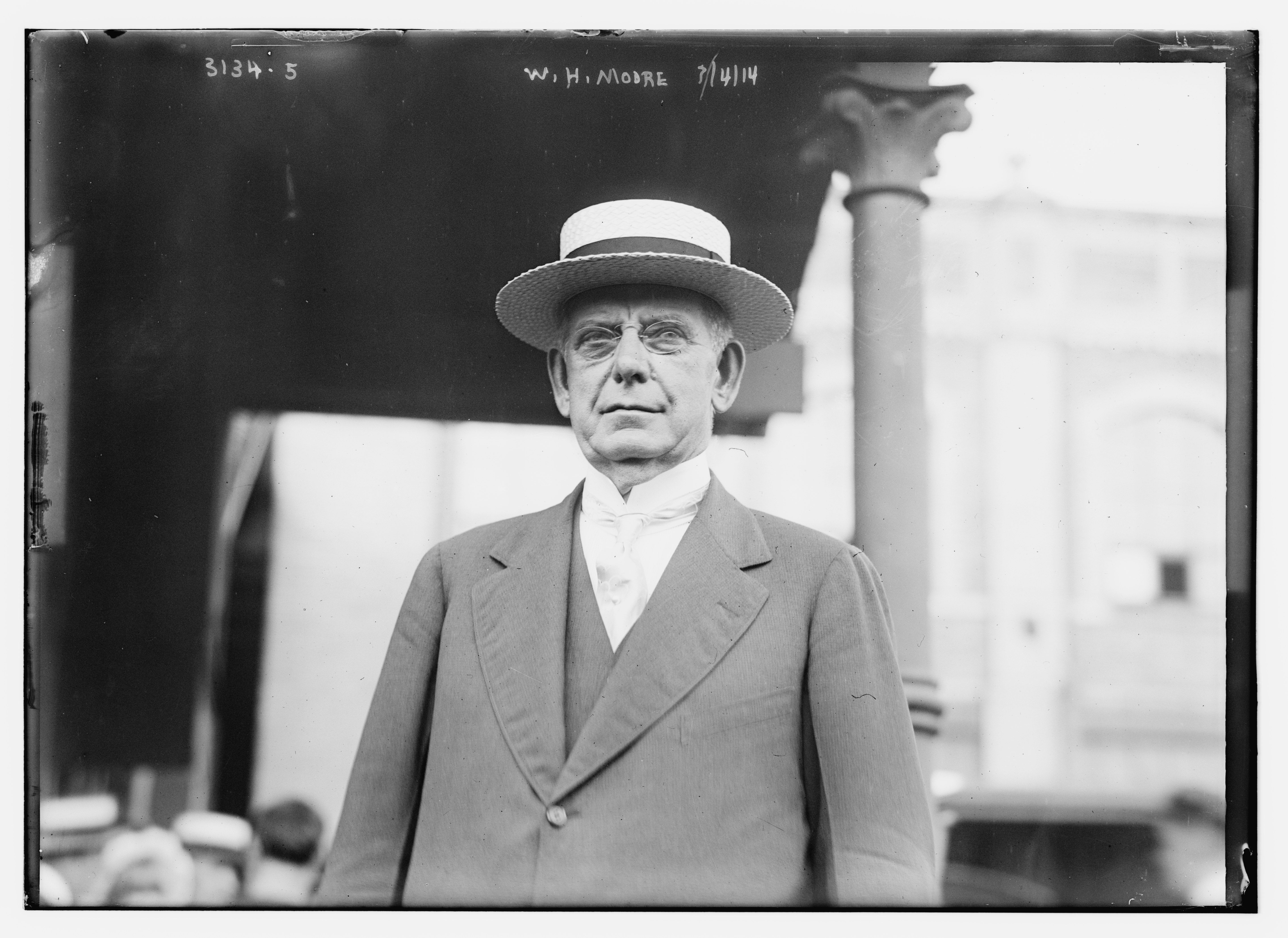 W. H. Moore aka William Henry Moore on July 14, 1914 Bain News Service,, publisher. W.H. Moore [between ca. 1910 and ca. 1915] 1 negative : glass ; 5 x 7 in. or smaller. Notes: Title from unverified data provided by the Bain News Service on the negatives or caption cards. Forms part of: George Grantham Bain Collection (Library of Congress). Format: Glass negatives. Repository: Library of Congress, Prints and Photographs Division, Washington, D.C. 20540 USA, General information about the Bain Collection is available at Persistent URL: Call Number: LC-B2- 3134-5